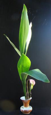 5. An Oseika design created in 2009 by Jesus Bantake Minguez during the Annual Memorial Banmi Shofu retreat at Shoshin Studios. The Oseika creation features five aspidistra leaves and a singular pink Calla Lily and Waialua driftwood in Shoshin Studios Nageire container